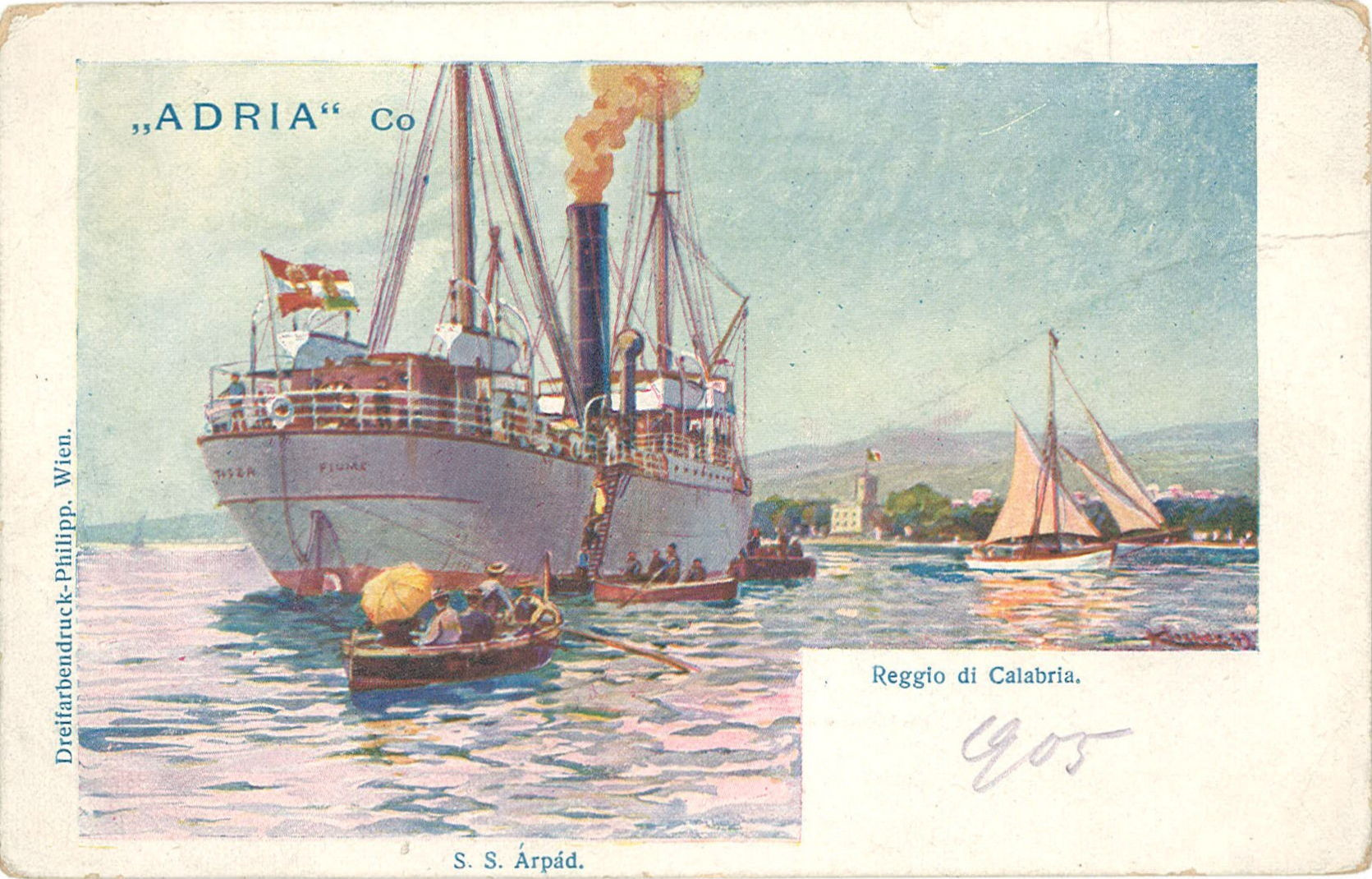 Picture postcard with the SS "Árpád" of the Adria Ltd. Fiume (1905)